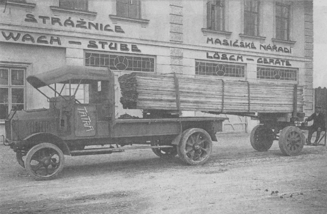 The oldest existing photograph of a truck (designed for transporting wood) with the name Tatra type TL 4 from year 1919.